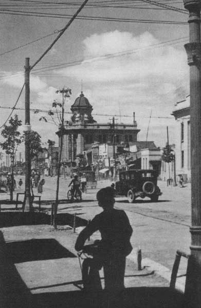 O-dori, the main street in Toyohara (present-day Yuzhno-Sakhalinsk)